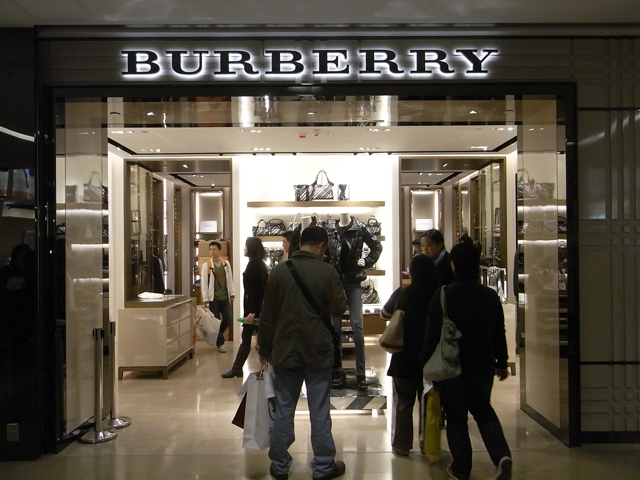 尖沙咀 巴巴利